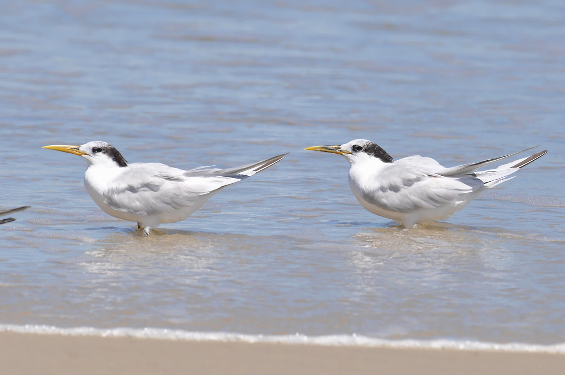 Two Cayenne Terns Thalasseus acuflavidus eurygnathus on the Atlantic coast of Bojuru, Rio Grande do Sul, Brazil. Seen in December 2010 in non-breeding plumage.